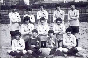 Womens National team France 1920